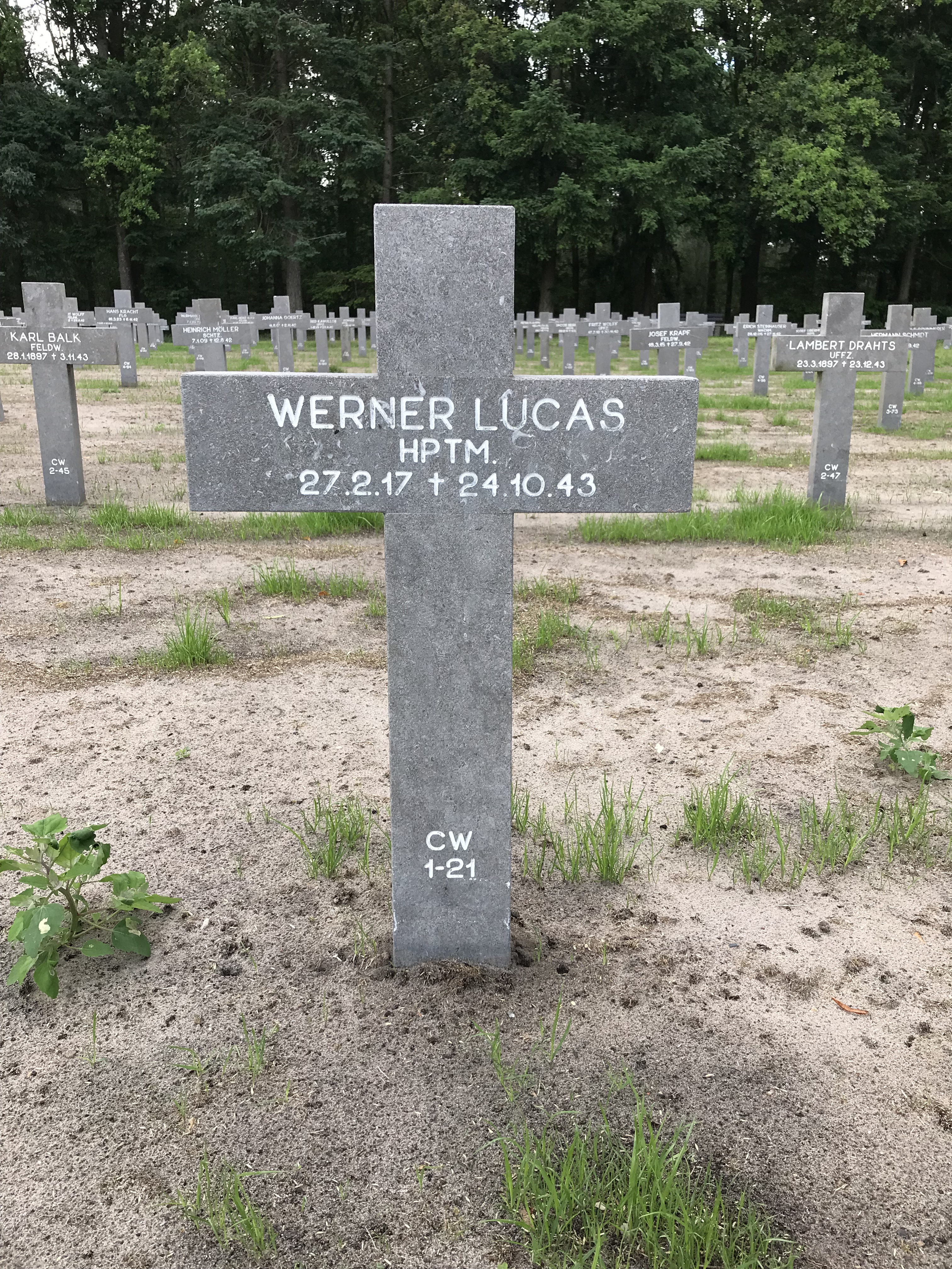 Grave of Werner Lucas CW-1-21